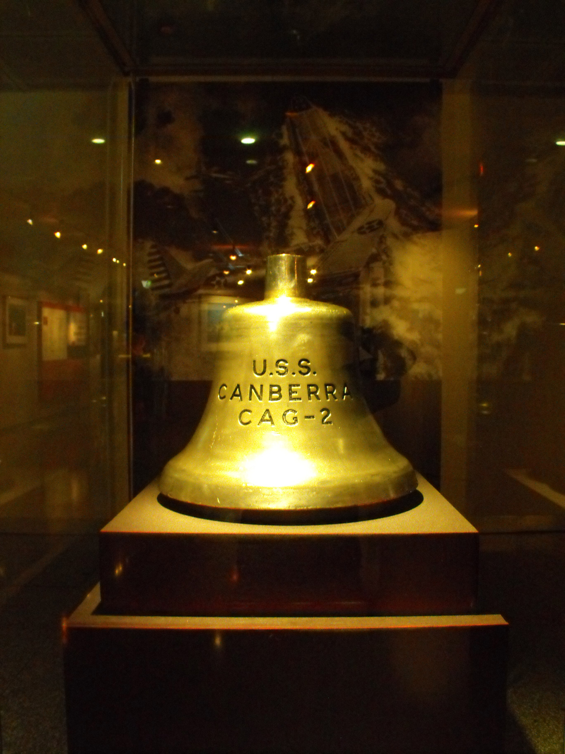 The ship's bell from USS Canberra, on display at the Australian National Maritime Museum